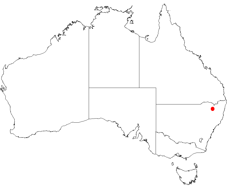 Macrozamia humilis occurrence data downloaded from Australasian Virtual Herbarium using